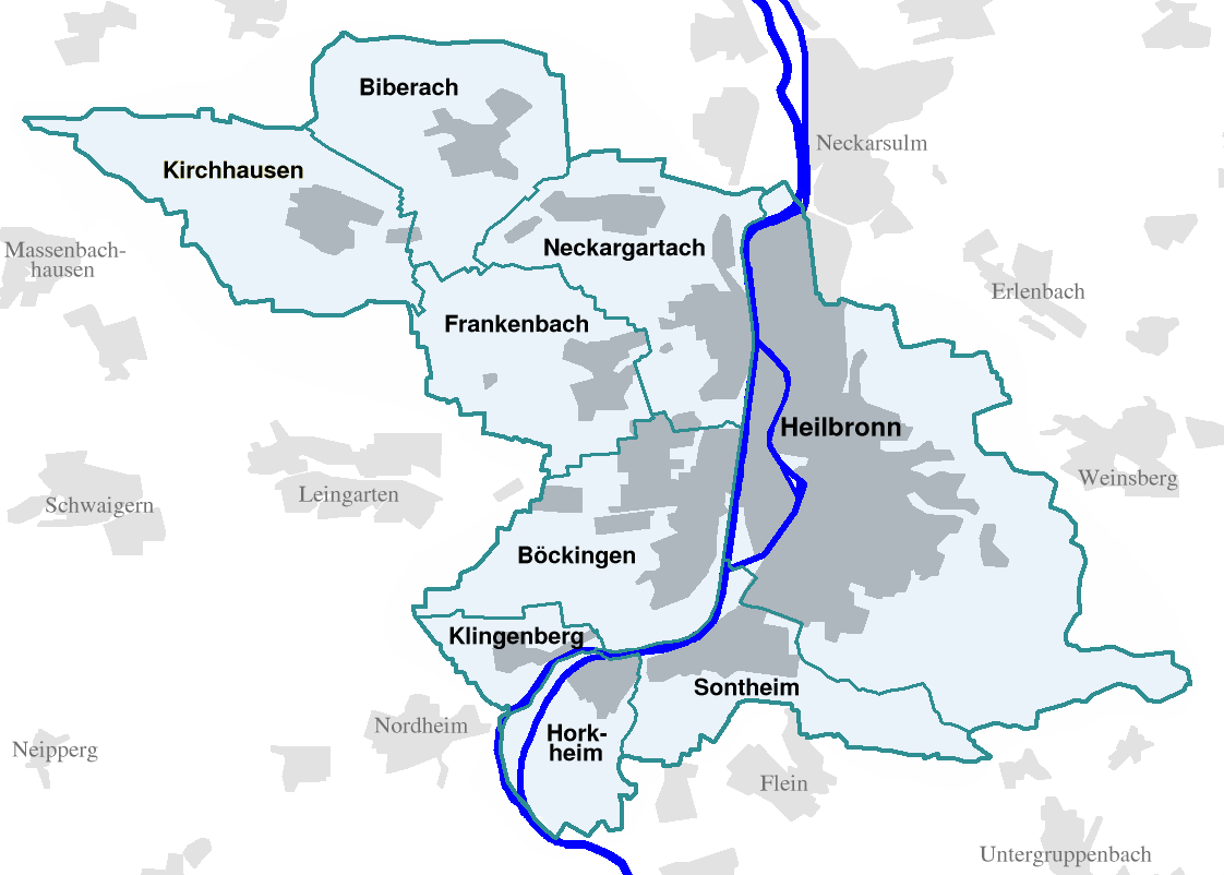 Map of the boroughs of Heilbronn (Germany)